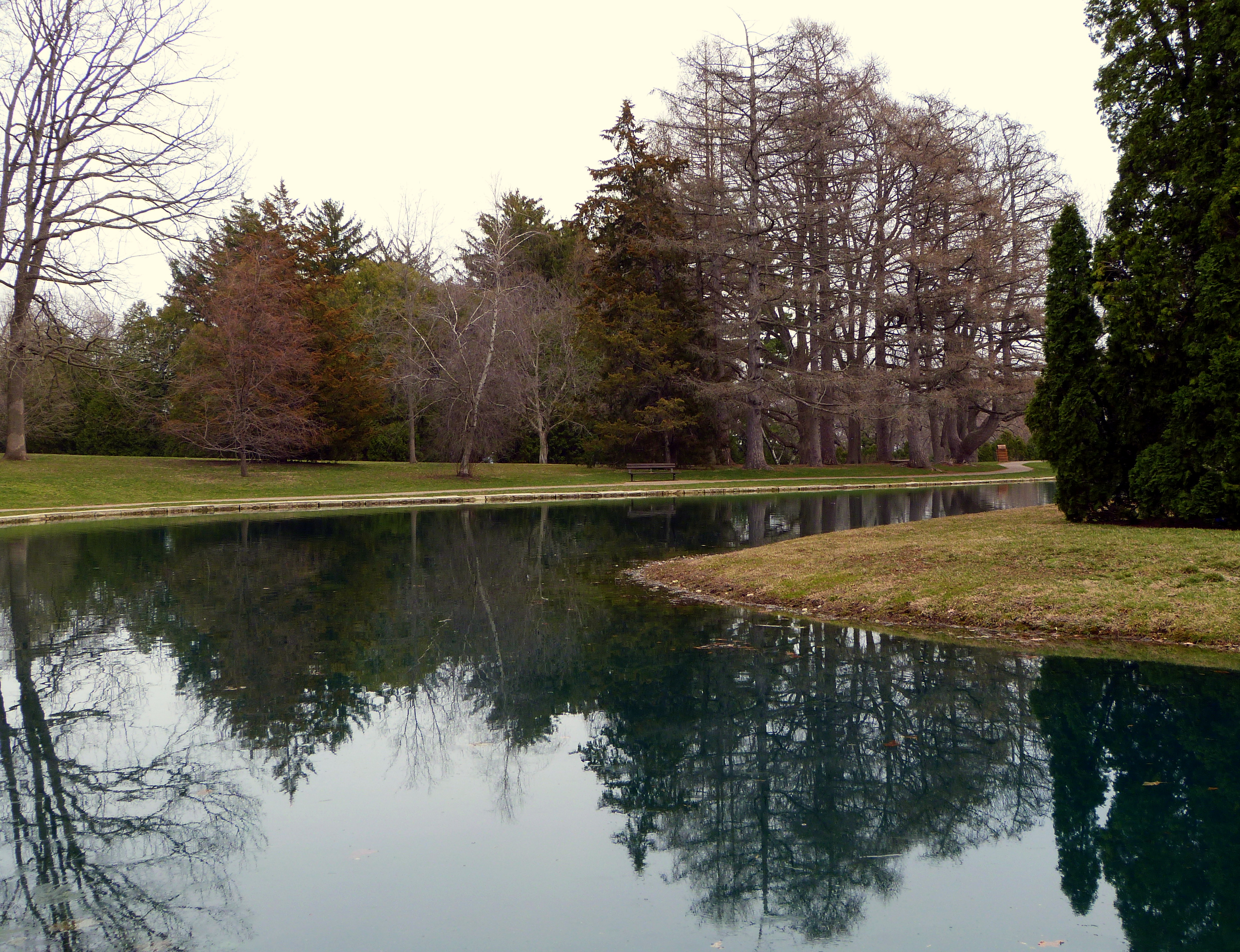 Pond and arboretum plantings in Crapo Park, Burlington, Iowa, United States.